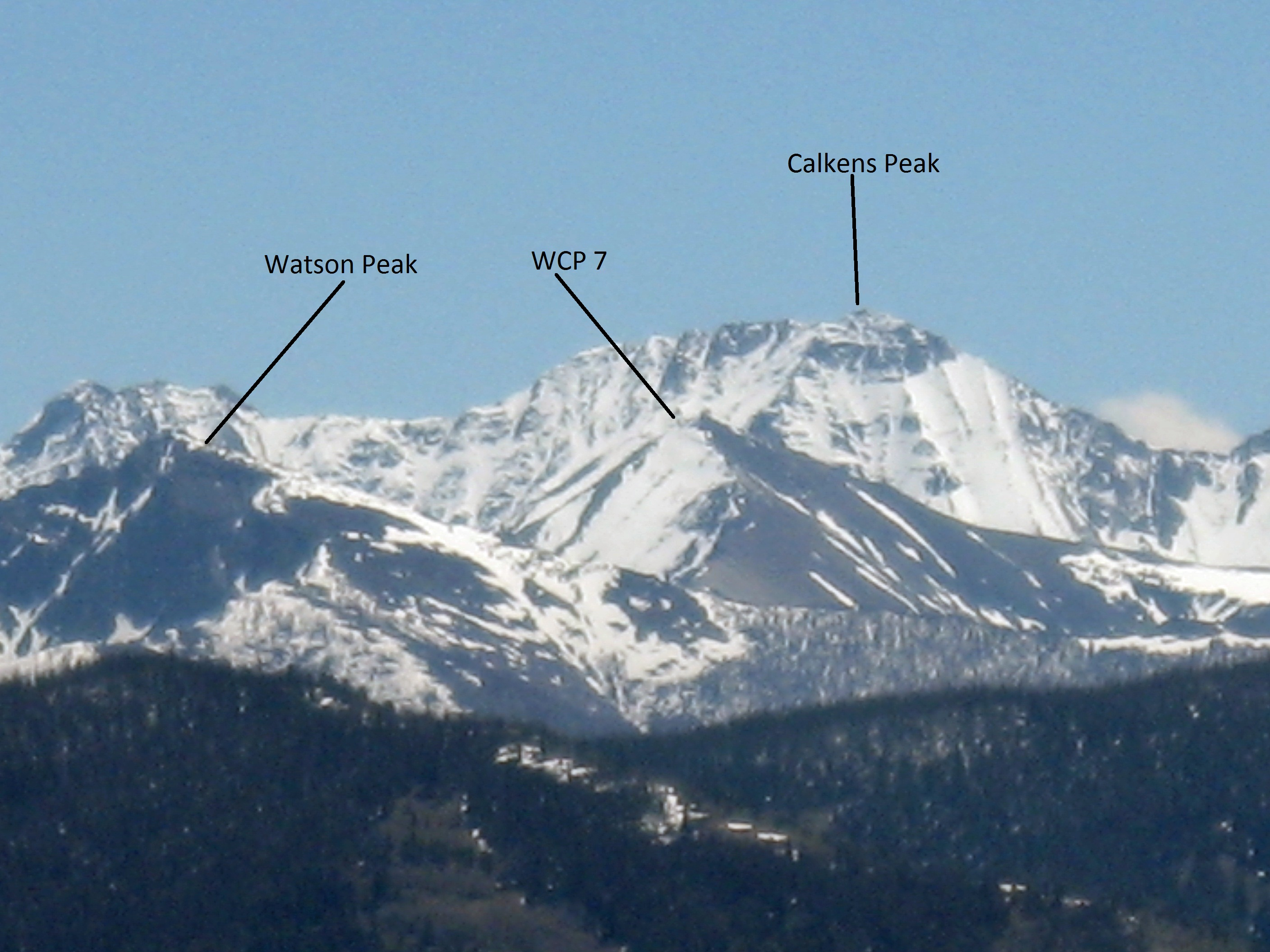 Calkins Peak, White Cloud Peak 7, and Watson Peak in the White Cloud Mountains labeled. Viewed from above the Alpine Way Trail on the east side of Williams Peak in the Sawtooth National Recreation Area, Idaho.